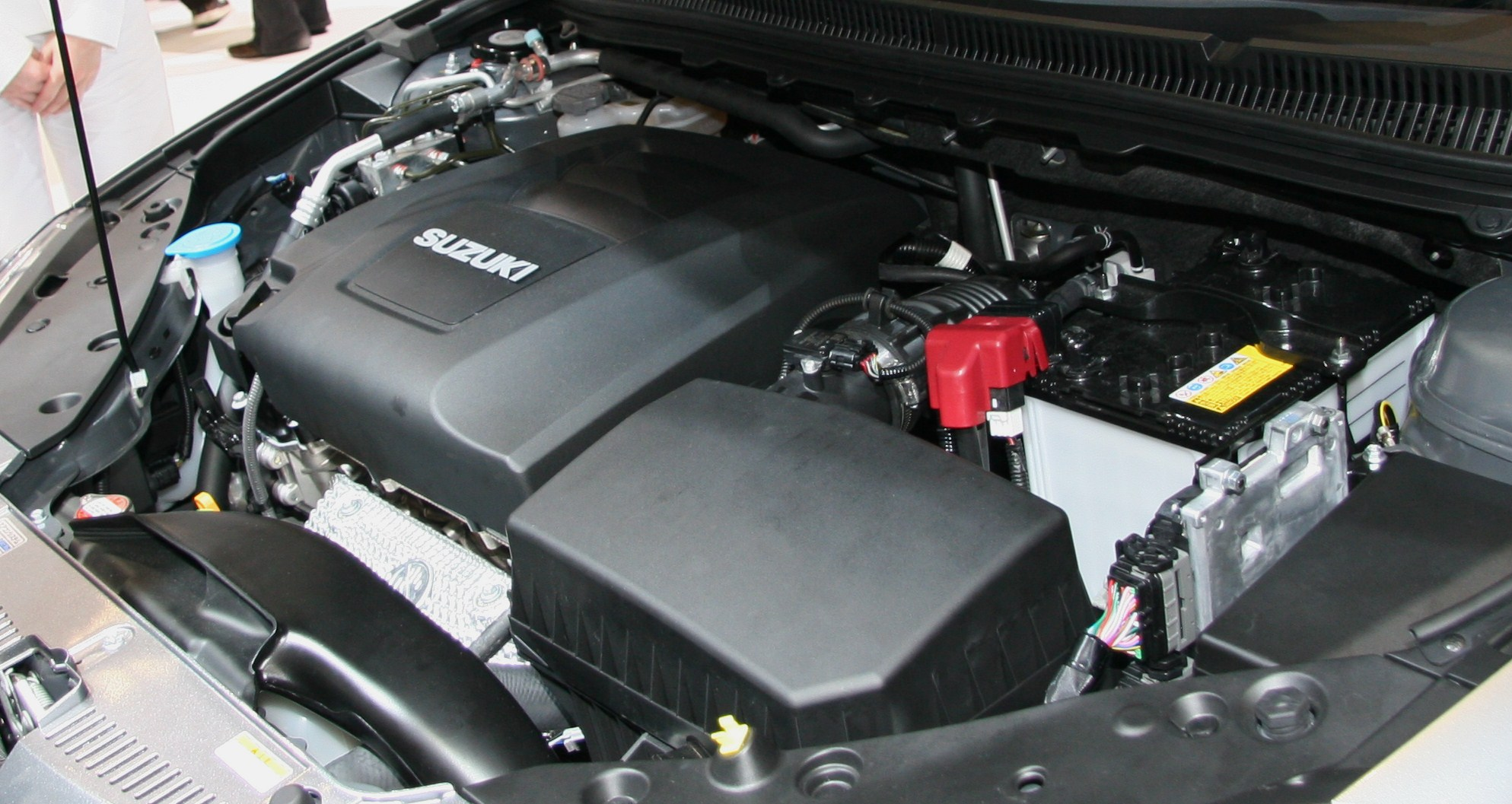 Suzuki J24B